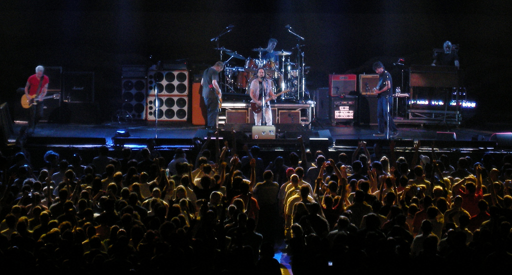 Pearl Jam